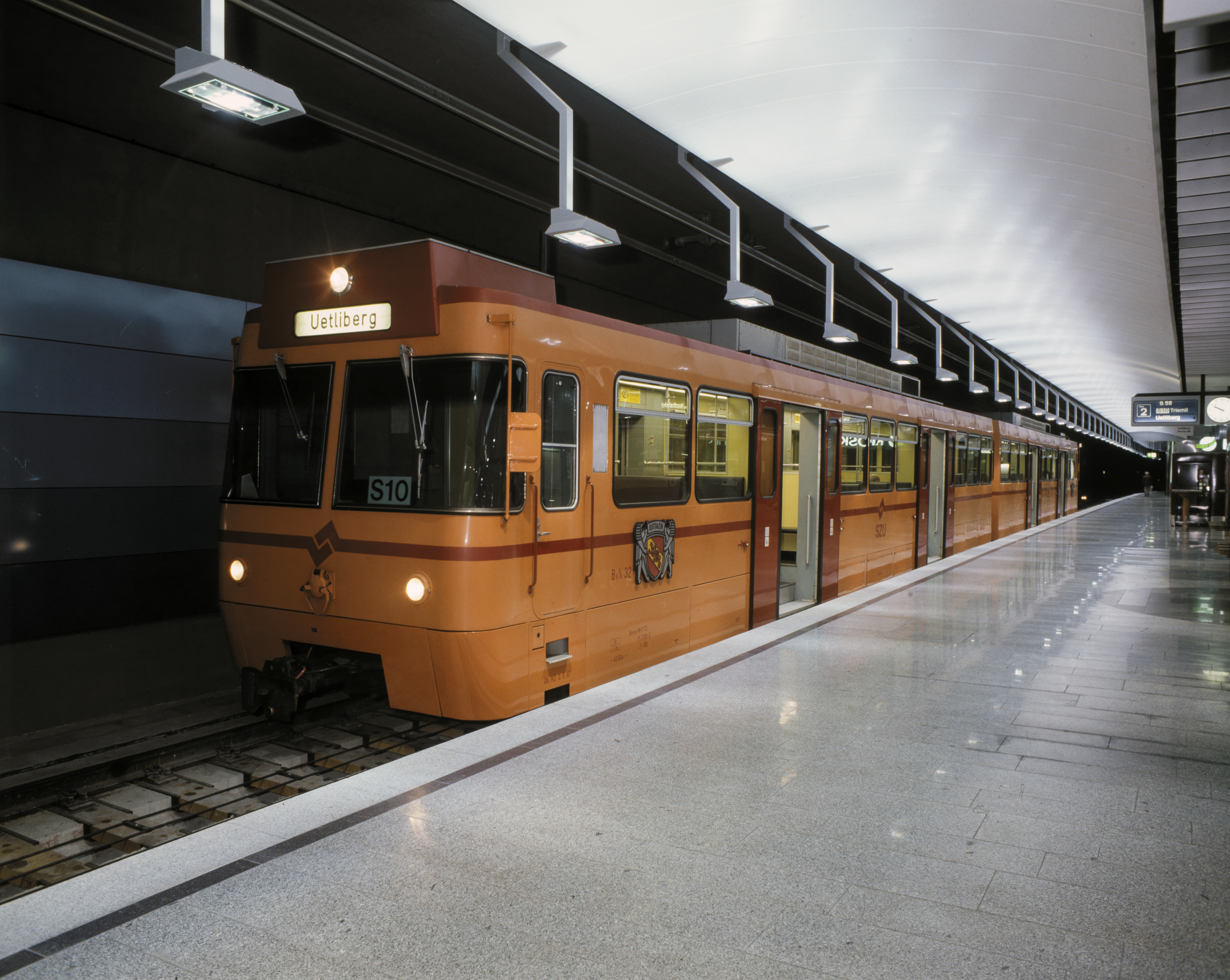 SZU Be 8/8 32 at Zürich HB railway station.